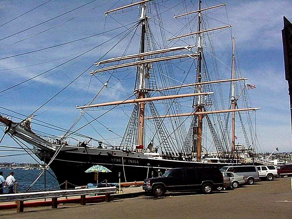 Image title: Star of India ship Image from Public domain images website